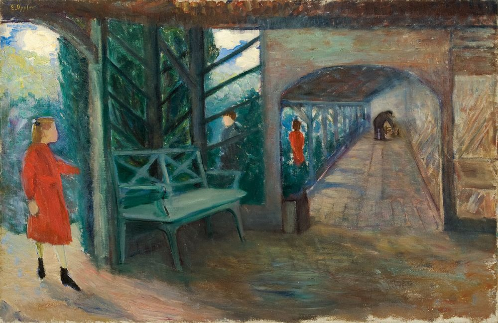 Shows a scene in a parks